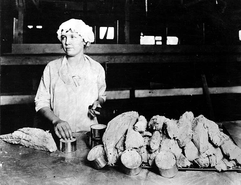 In Folder 272 On verso of image: Los Angeles Tuna Canning Co., Long Beach, Cal. Putting the fish in cans. Subjects (LCTGM): Canning & preserving--California--Long Beach.); Cannery workers--California--Long Beach; Tuna--California; Women--California--Long Beach Subjects (LCSH): Los Angeles Tuna Canning Company (Long Beach, Calif)